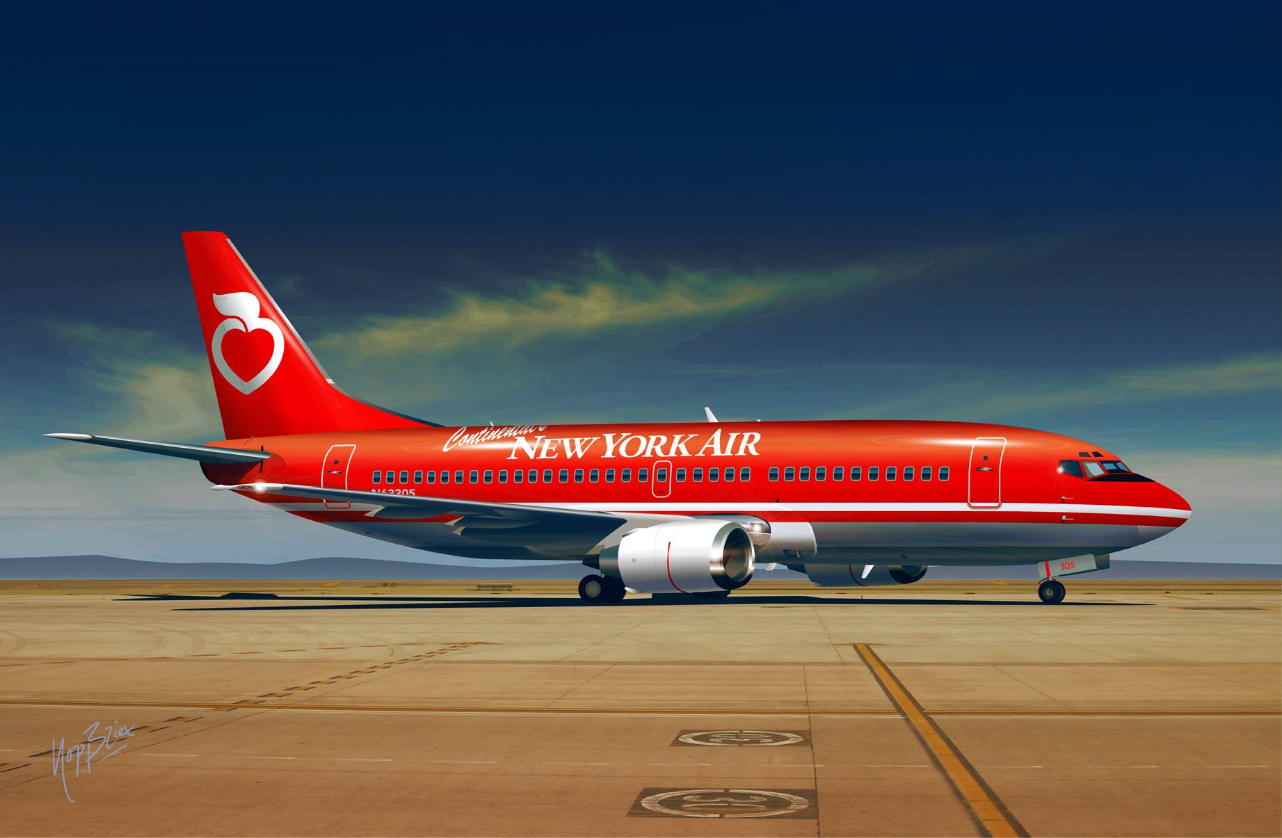 New York Air Boeing 737-300